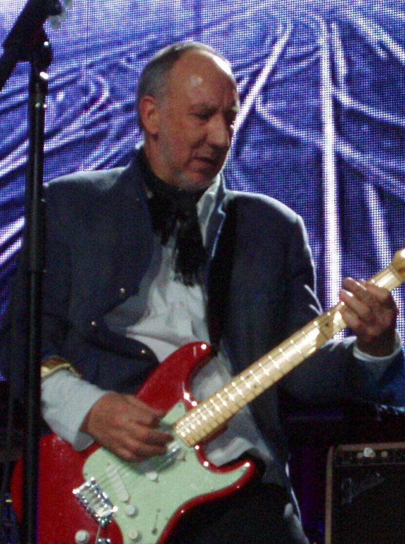 This photo was taken by Ian MacIsaac March 9th, 2007 at the Who concert at the Verizon Center in Washington, D.C., USA.